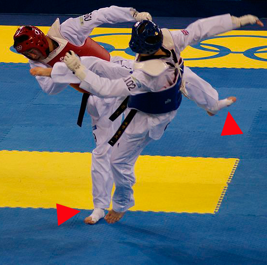 Aaron Cook Fighting in A Bronze Medal Match Against Zhu Guo at the 2008 Olympic Games, in the -80KG Event.